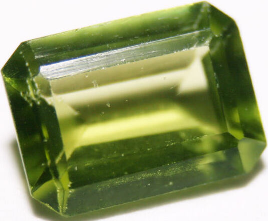 Emerald Cut Peridot ready to set in jewellery.